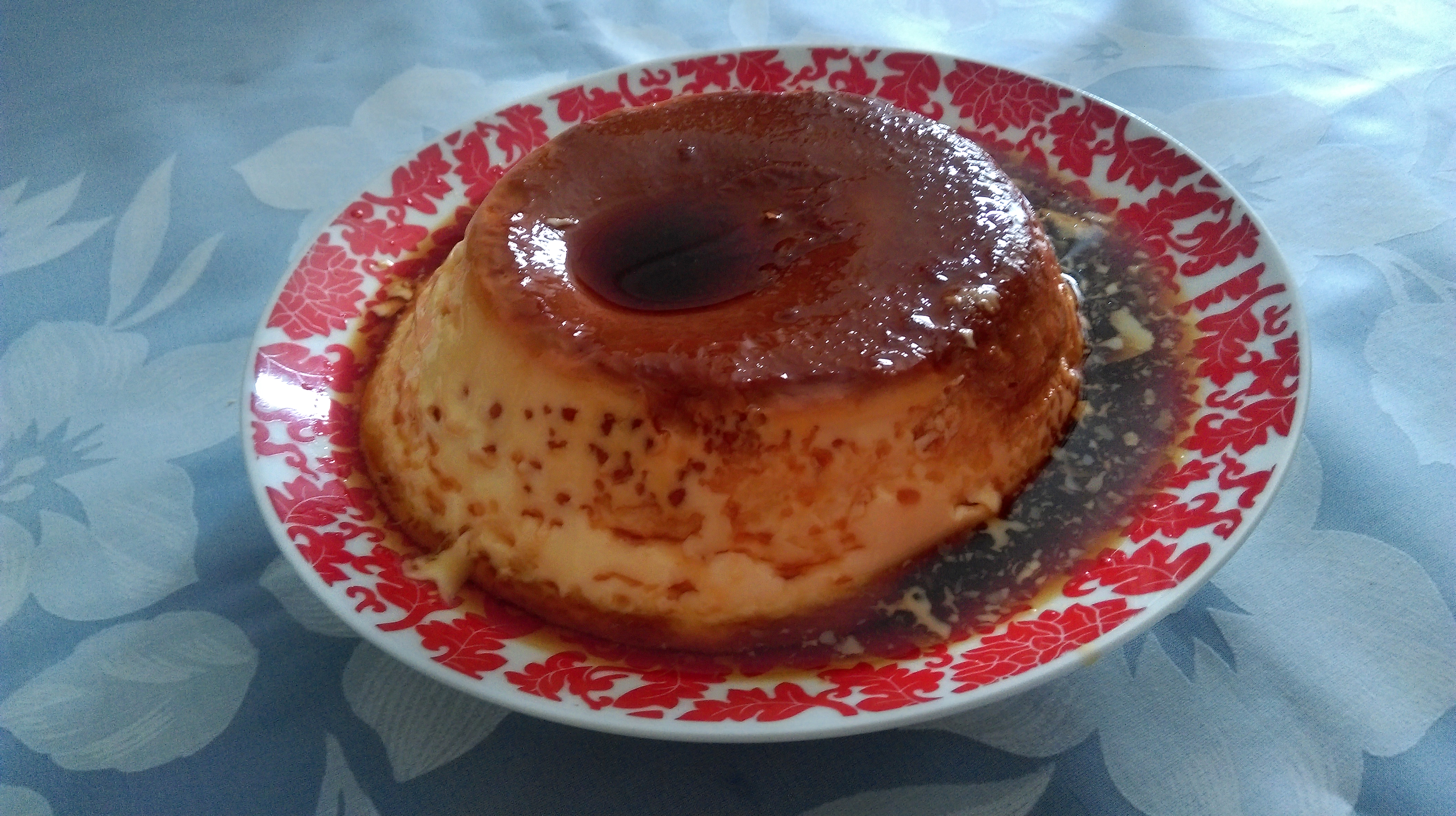 Variedad básica de flan con huevo, leche y azúcar